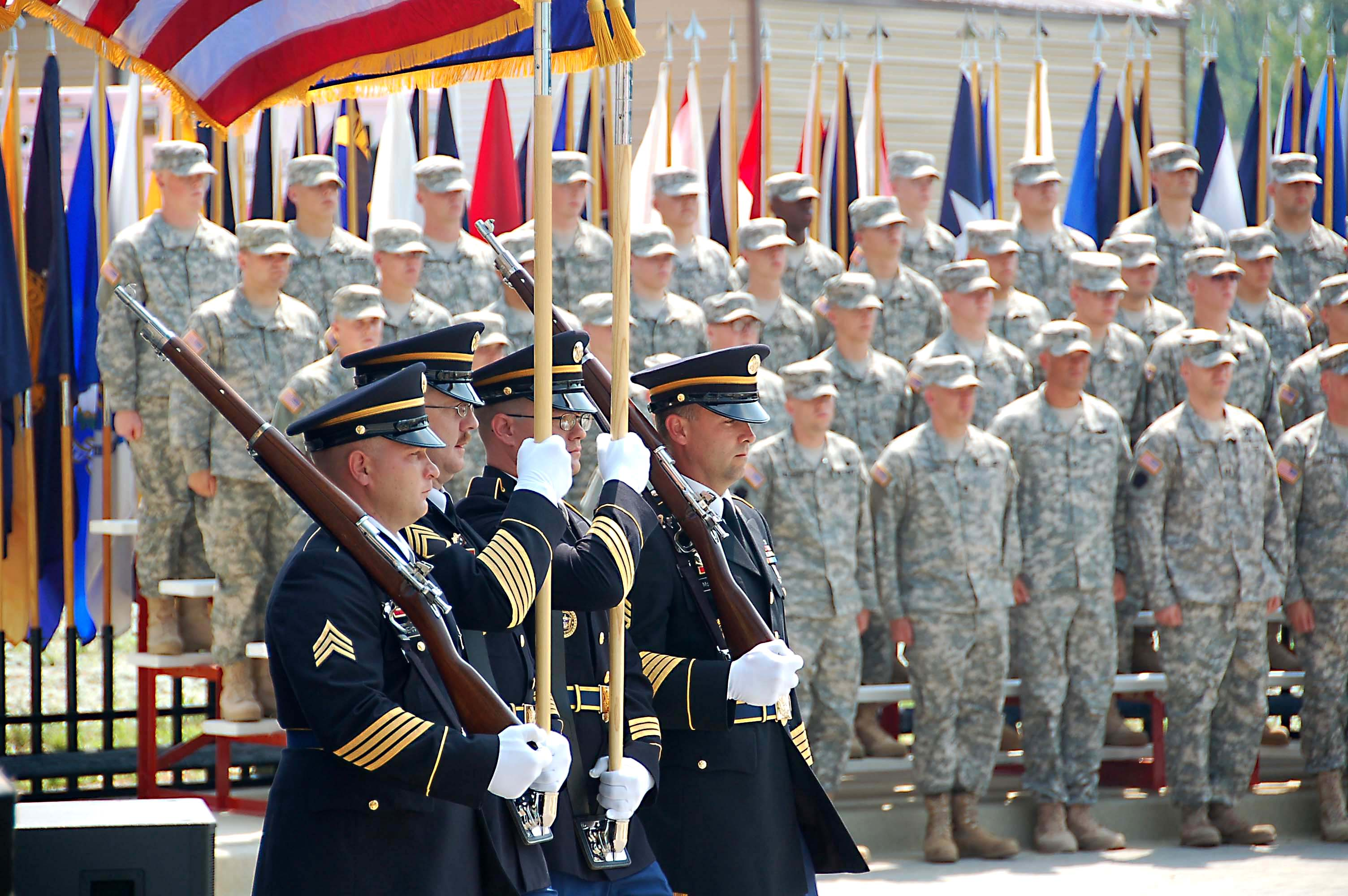 Members of the Indiana National Guard Honor Guard display the colors during the dedication of the National Guard Patriot Academy, Aug. 26, 2009, at the Muscatatuck Urban Training Center, Ind. The Academy is a National Guard Bureau initiative allowing high school dropouts ages 17 through 20 a second opportunity to earn their diploma. U.S. Army photo by T. D. Jackson